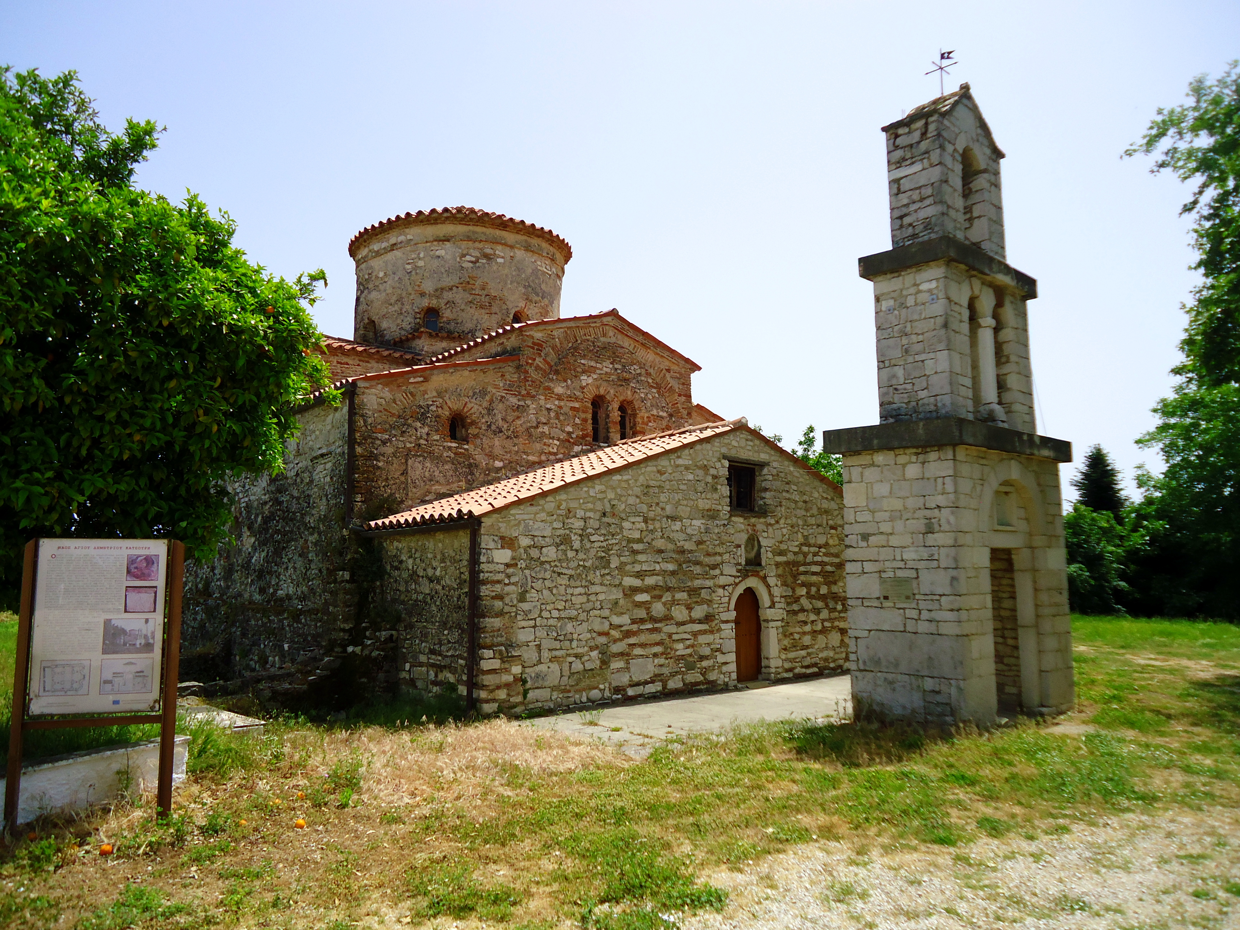 Saint Dimitrios Katsouris, Plisioi, Arta, Greece. The oldest monument of Byzantine Arta, that was built in the second half of the 9th or 10th century.